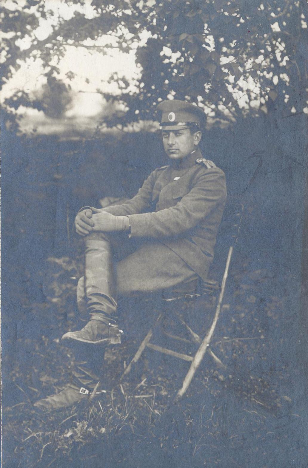 Prince Kyril of Bulgaria